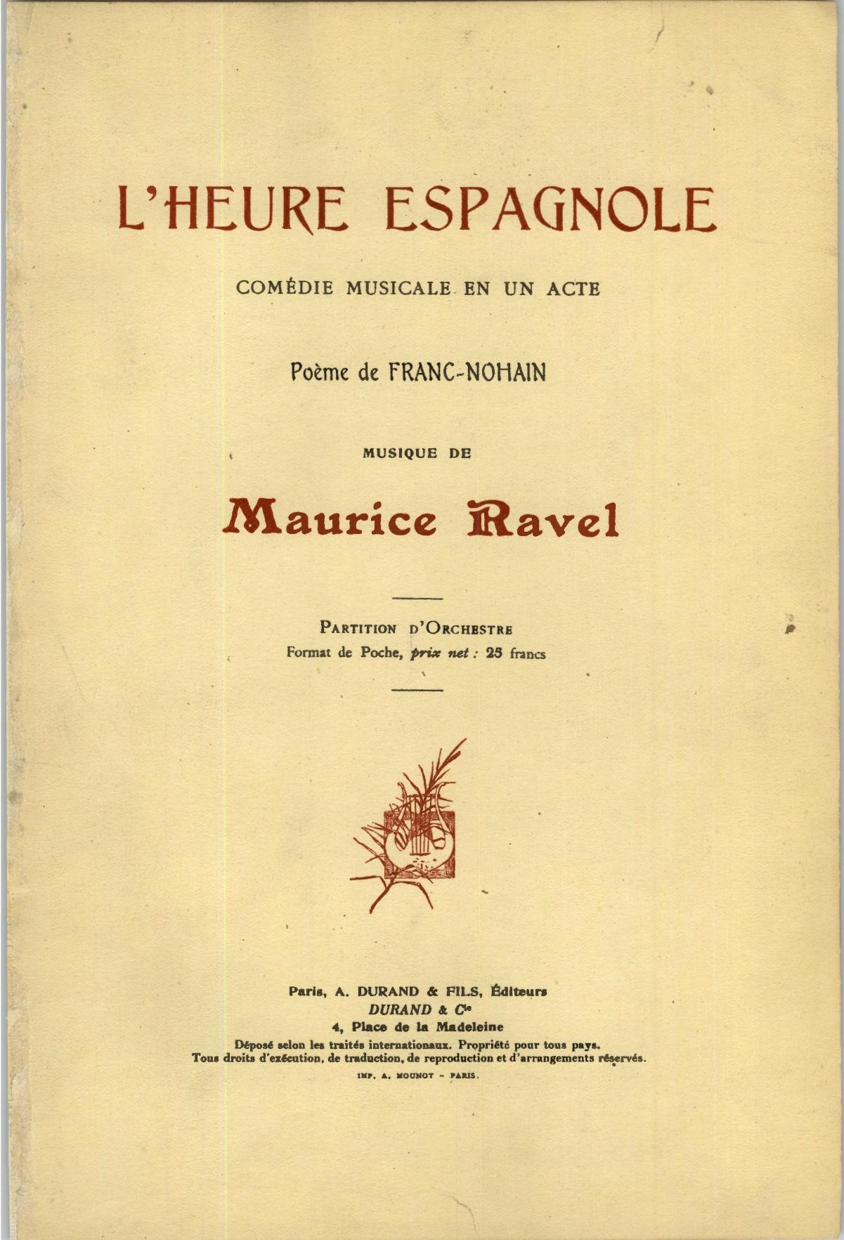 Publisher: Paris: Durand & Cie., 1911. Plates D. & F. 7314, 10,605 Reprinted: Mineola: Dover Publications, 1996. (#10758)